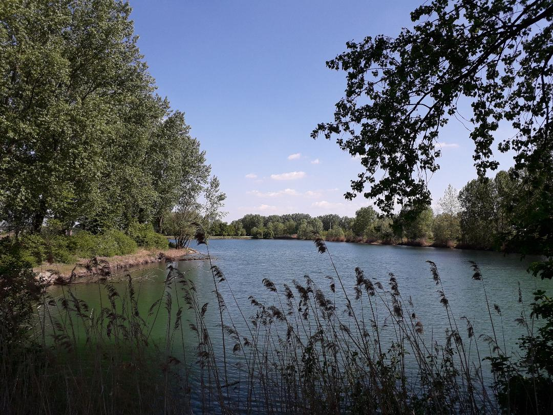 the photo shows a lake in the Po Valley (Province of Mantova)